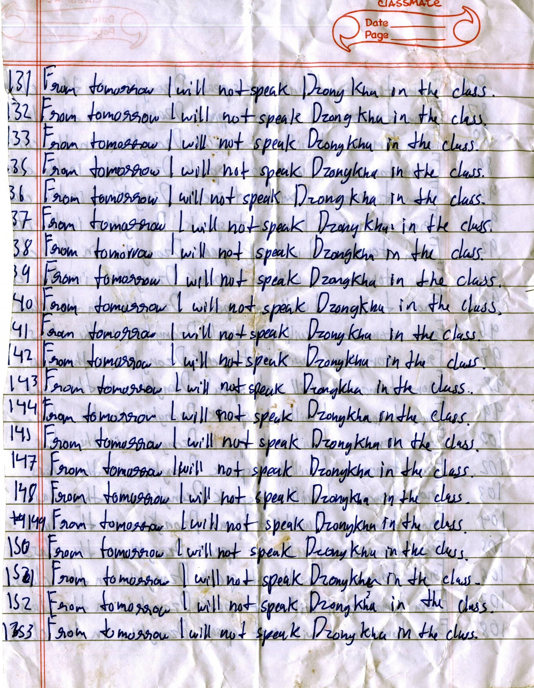 Example of punishment for speaking Dzongkha in the classroom (Bhutan)